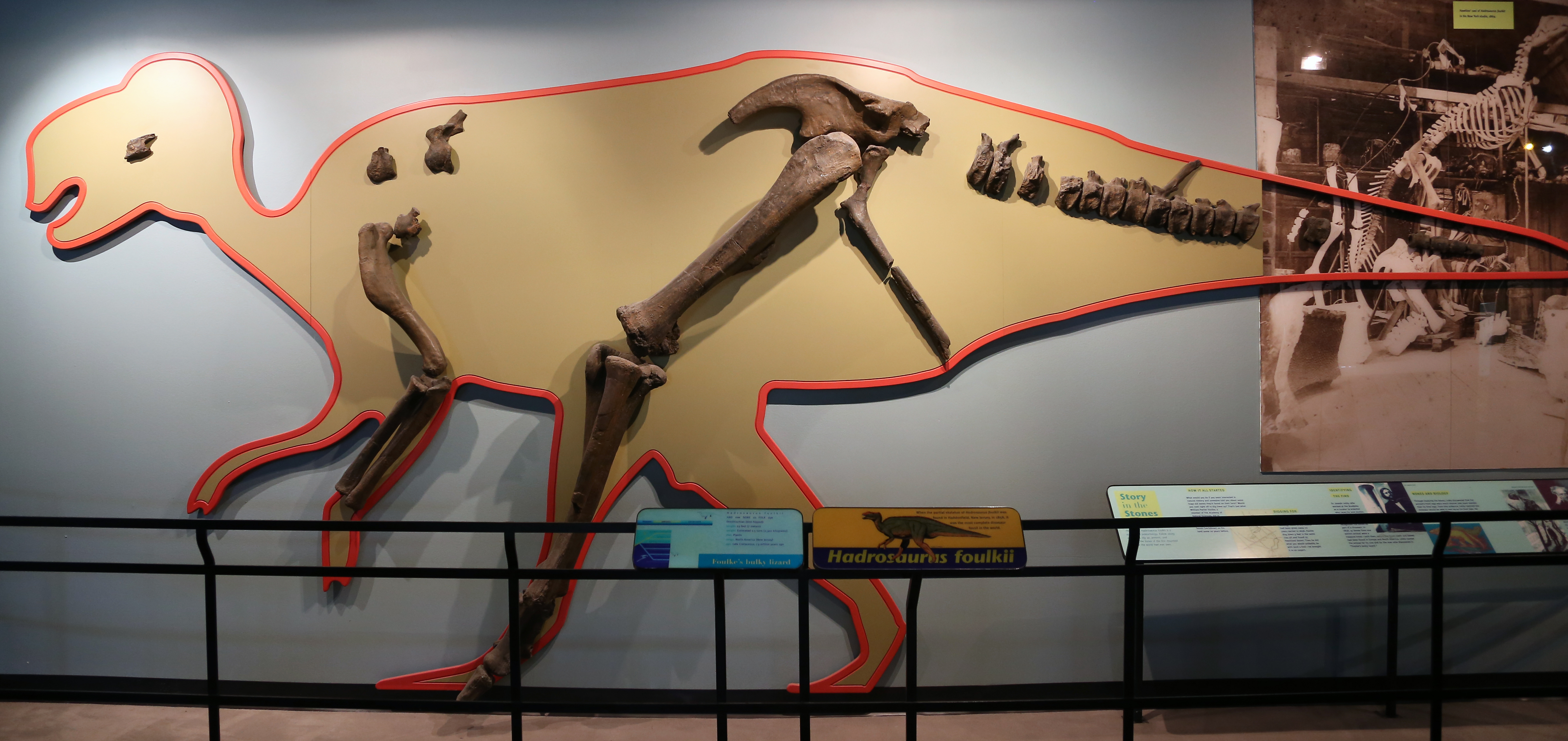 Academy of Natural Science of Drexel University Philadelphia PA September 11, 2013